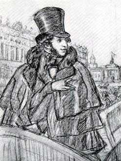 Russian poet Alexander Pushkin (1799-1837)